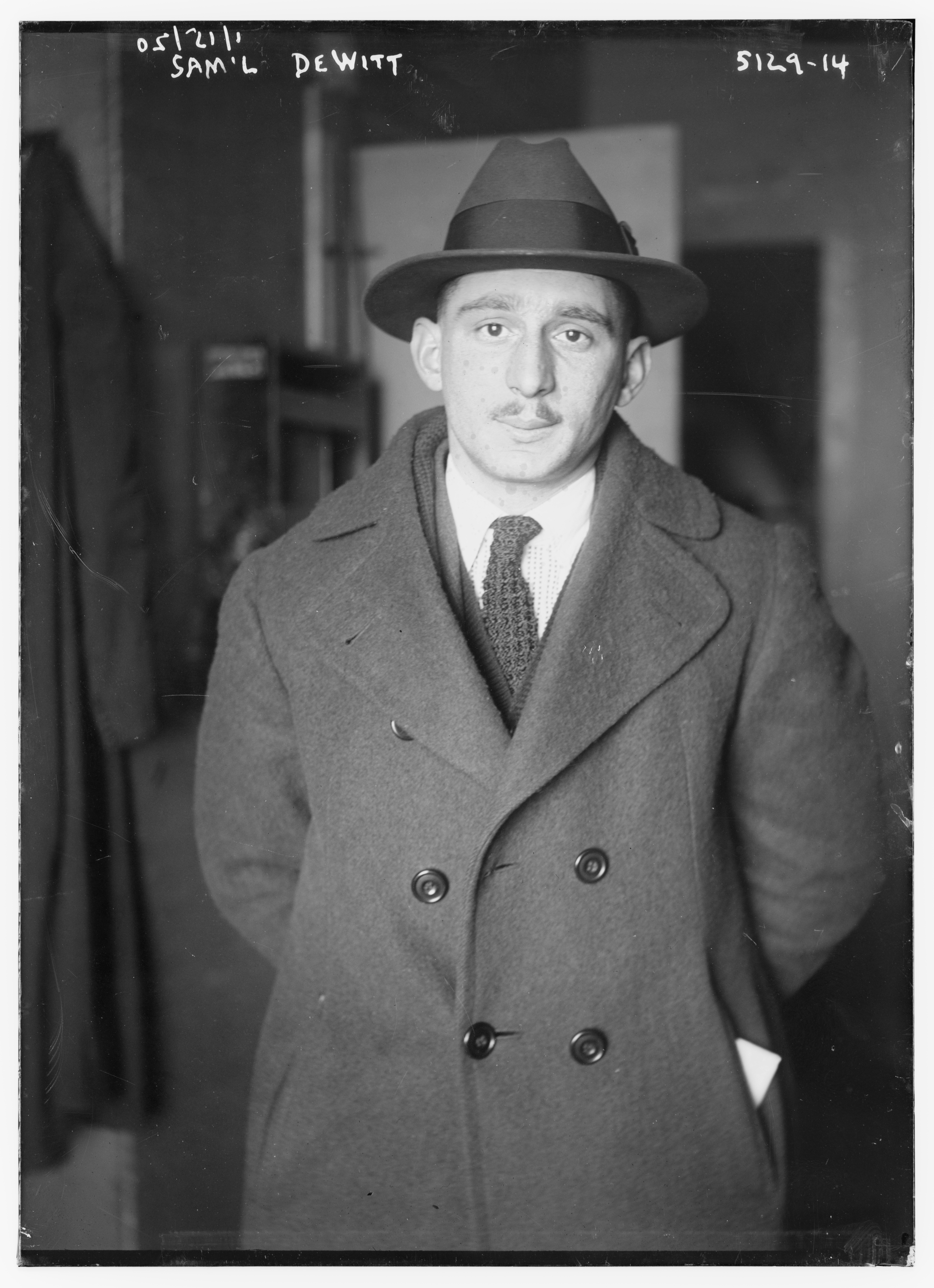 Samuel Aaron DeWitt on January 12,1920